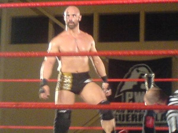 A picture of Christopher Daniels i took at PWG show in Cincinnati Ohio in 2006.